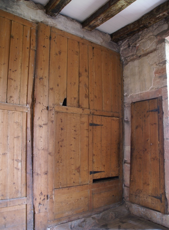 Newark Castle, Port Glasgow, Scotland - bedchamber